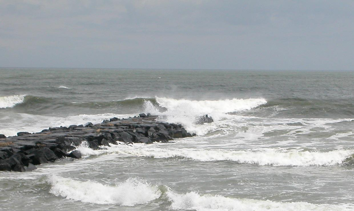 Waves caused by Tropical Storm Beryl in Ocean City, New Jersey on July 20, 2006